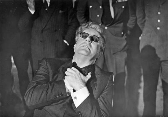 Dr. Strangelove trying to resist his alien hand.